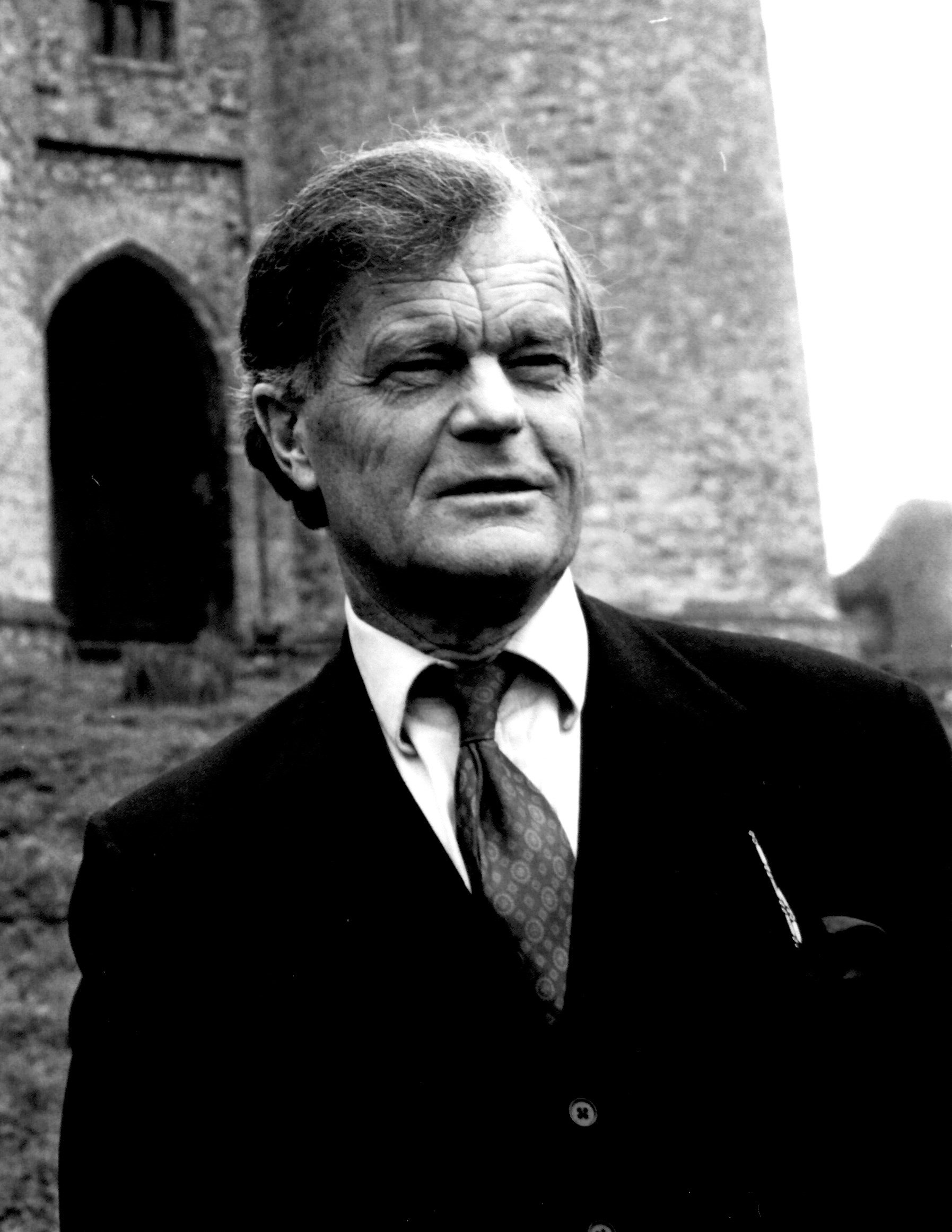 Alan Clark appearing on Opinions on 21 February 1993